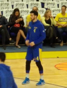 Maccabi Tel Aviv B.C. vs Ironi Nes Ziona B.C. (07) - 25 March 2019